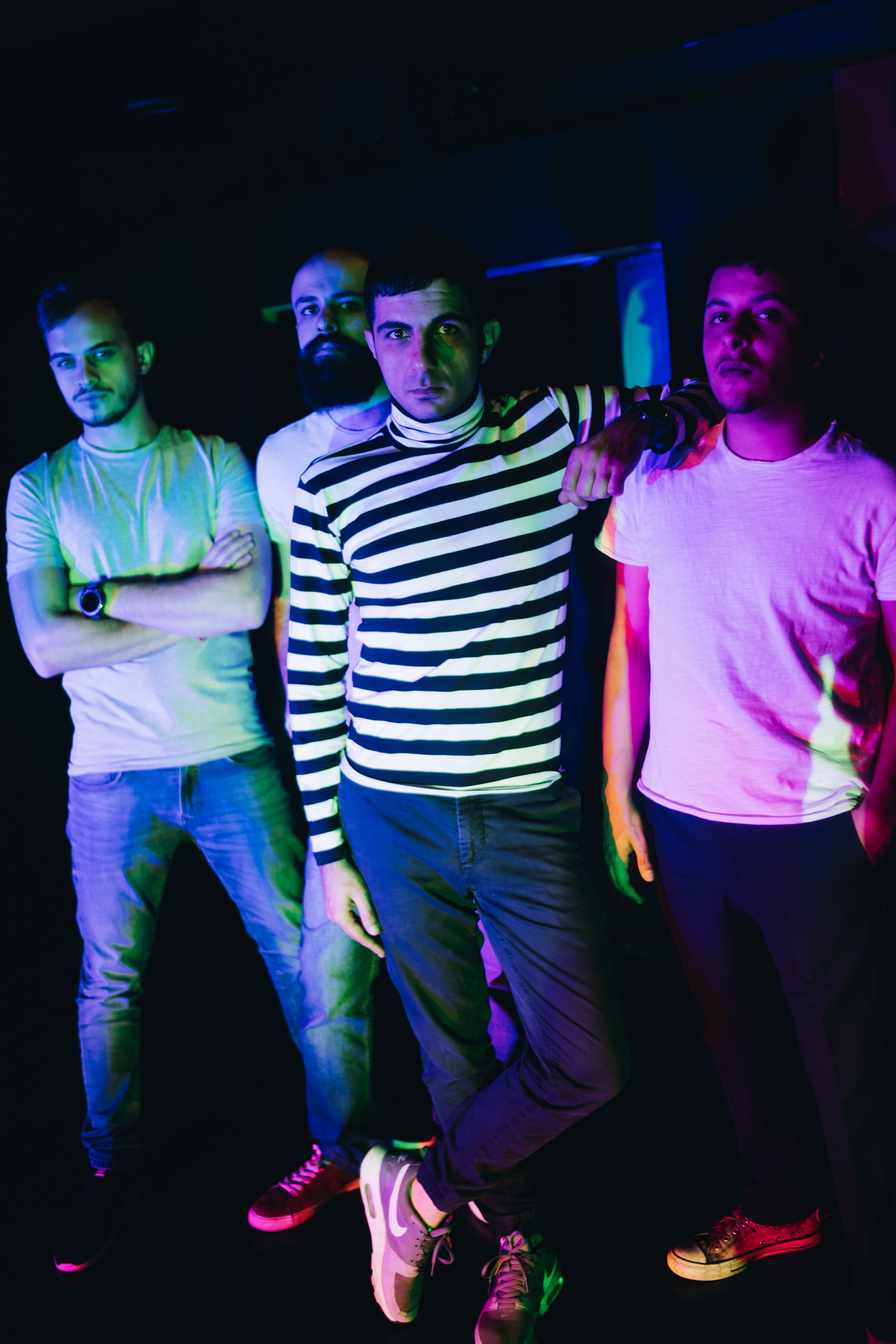 Akher Zapheer 2019 Latest